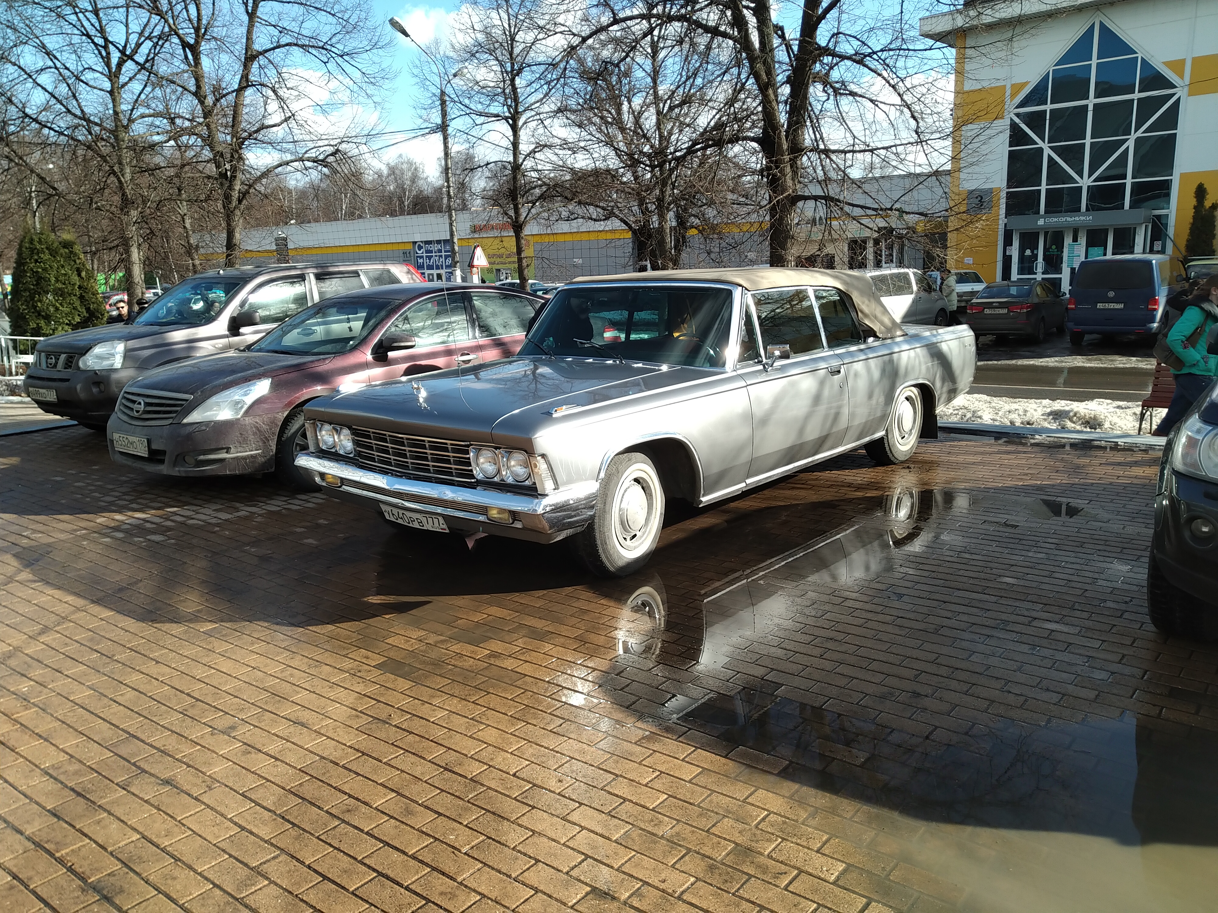 ZIL-117V Convertible car, as seen in Moscow, March, 9, 2019